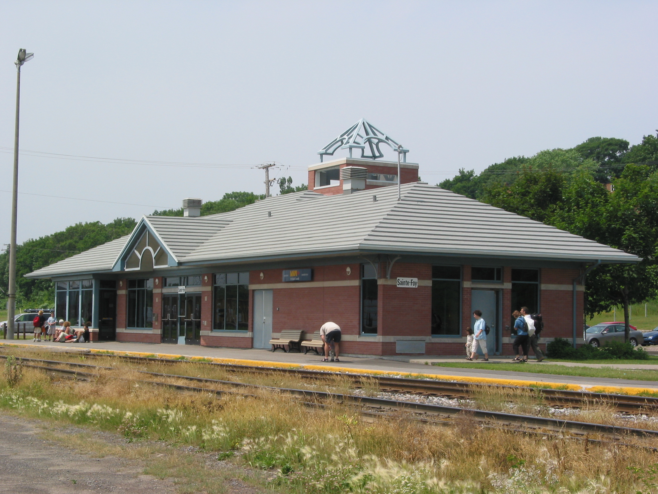 Via Rail's Ste-Foy train station